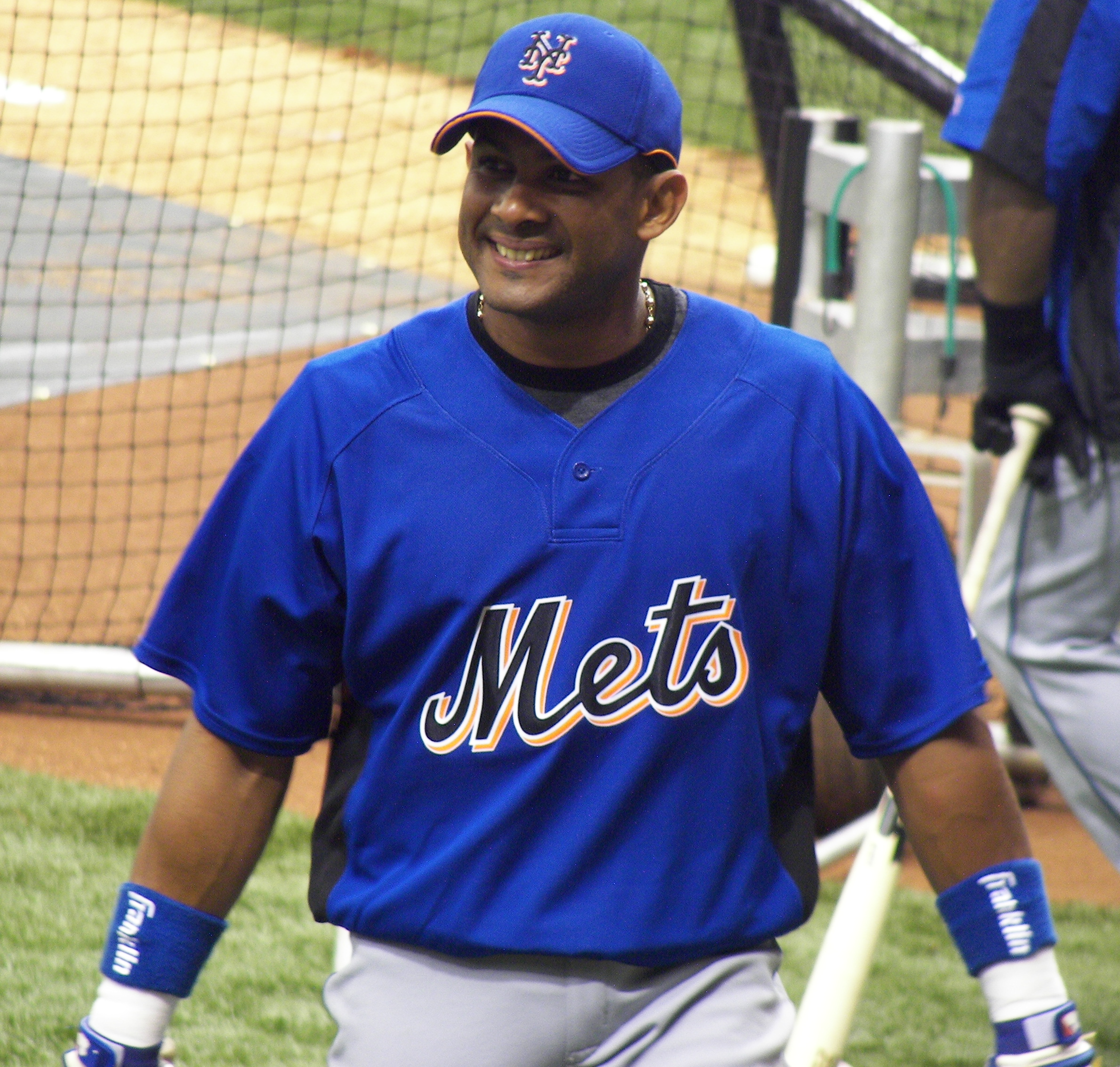 Mets outfielder Fernando Tatís during a Mets/Devil Rays spring training game at Tropicana Field in St. Petersburg, Florida.